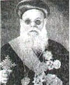 115th Pope & Patriarchs of Alexandria